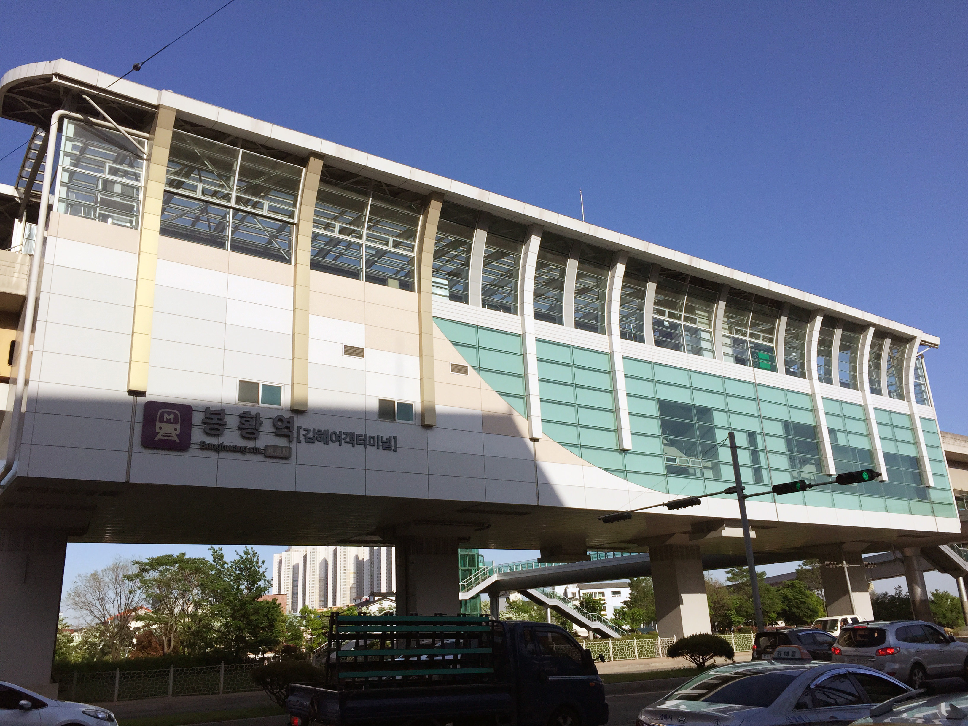 Bonghwang (Gimhae Bus Terminal) Station